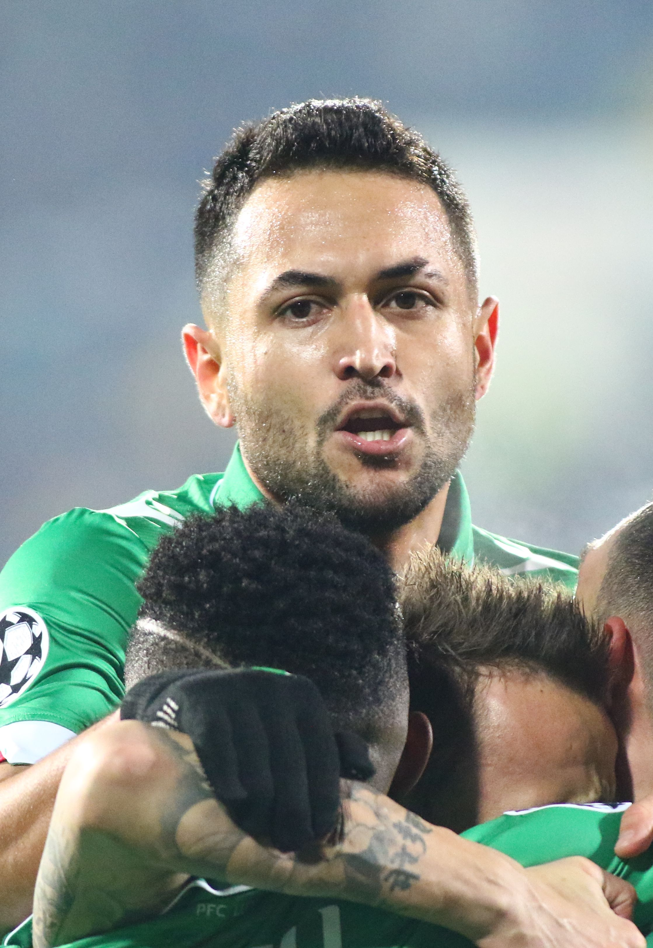 Wanderson Cristaldo Farias, simply known as Wanderson (born 2 January 1988 in Cruzeiro do Oeste), is a Brazilian footballer who plays as an attacking midfielder for Ludogorets Razgrad in the Bulgarian First League.